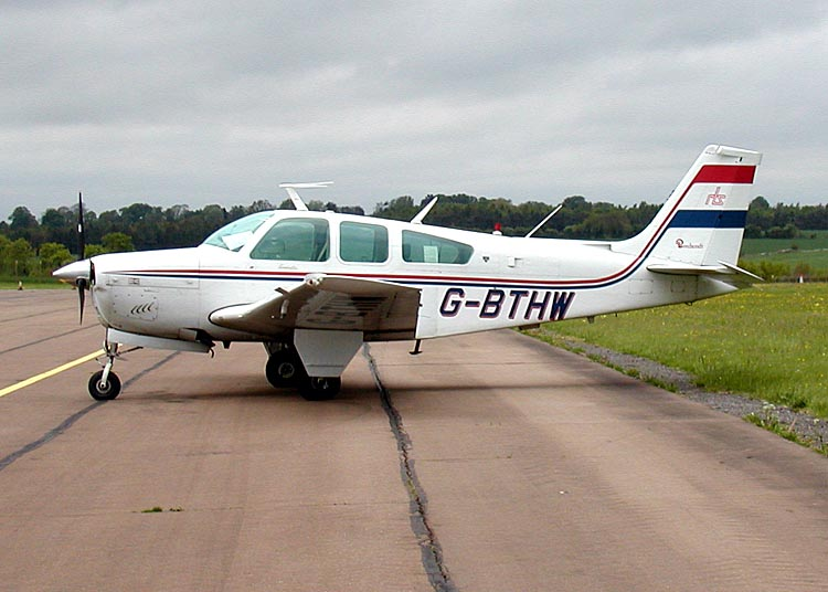 1978 Beech Bonanza F33C at the Great Vintage Fly-in Weekend, Kemble Airfield, England, May 2003. Taken by Adrian Pingstone and released to the public domain.